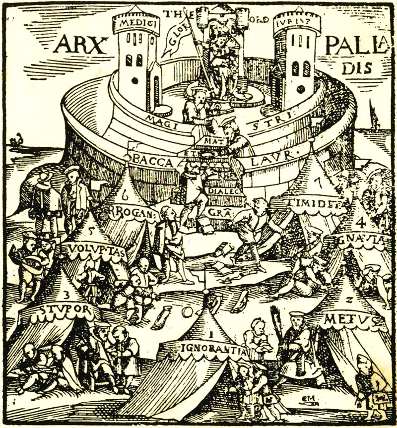 If you can, help make this description accessible to all by translating it into other languages. – Thanks!